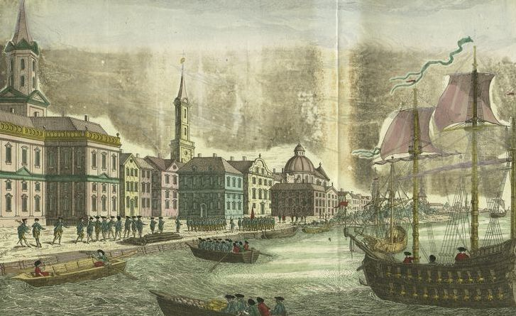 Image Title: Die Anlandung der Englischen Troupen zu Neu Yorck / Francois Xav. Habermann Creator: Emmet, Thomas Addis, 1828-1919 -- Collector Specific Material Type: Prints Standard Reference: EM11070 Source: Emmet Collection of Manuscripts Etc. Relating to American History. / Booth's History of New York. / Volume 4. Source Description: 130 prints : etching, engraving, mezzotint, lithograph, wood engraving, some col. ; 34.8 x 51 cm. or smaller.